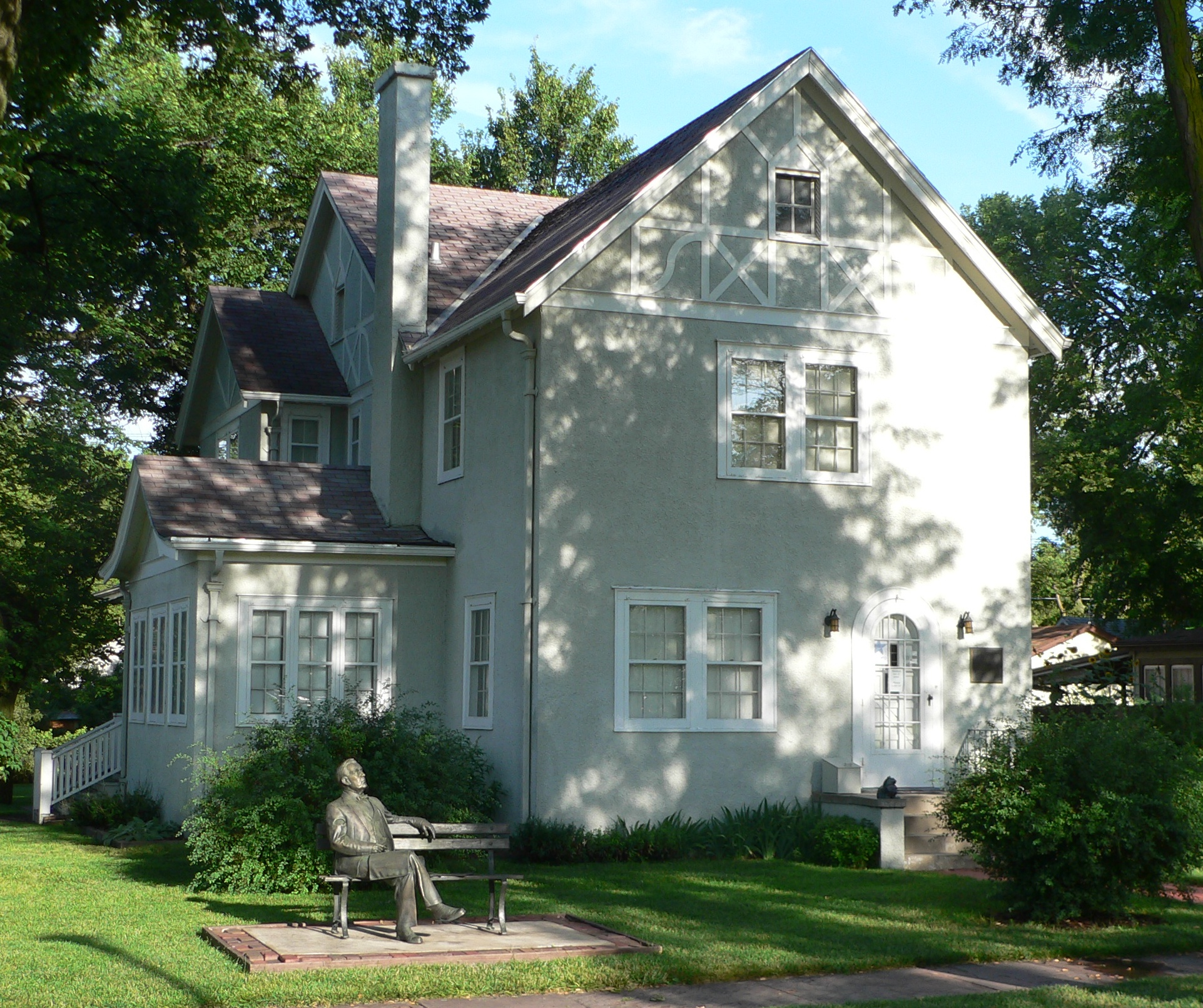 George W. Norris House in McCook, Nebraska; seen from the southeast. The house is listed in the National Register of Historic Places. It is now operated as a museum by the Nebraska State Historical Society. A seated statue of Norris is in front of the house.